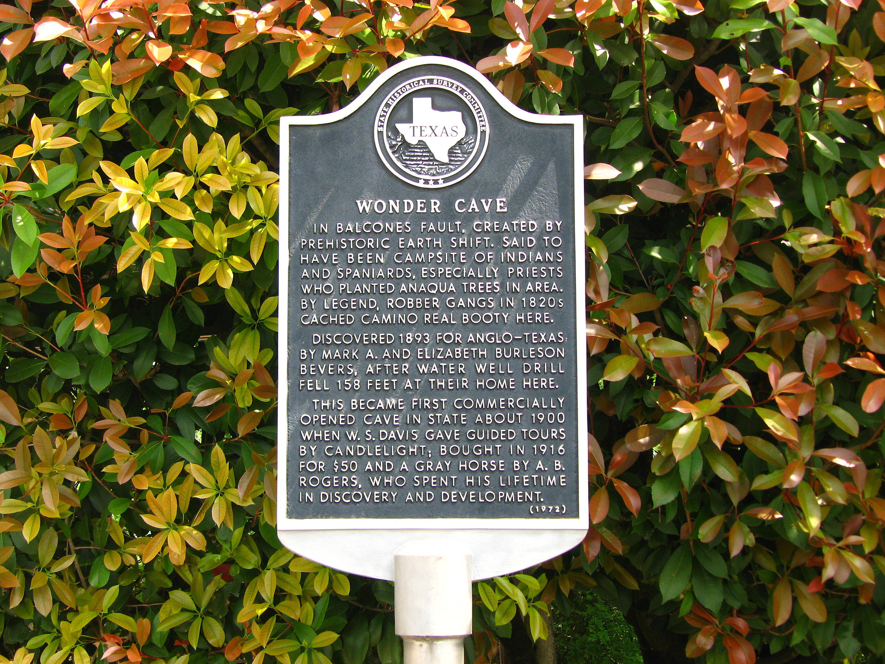 An informational sign posted by the Texas Historical Survey Committee at Wonder Cave in San Marcos, Texas.